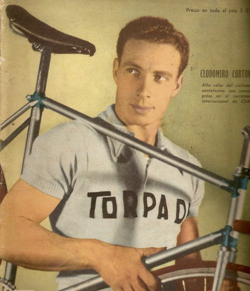 Clodomiro Cortoni (1923-2000). Cycling. Argentina